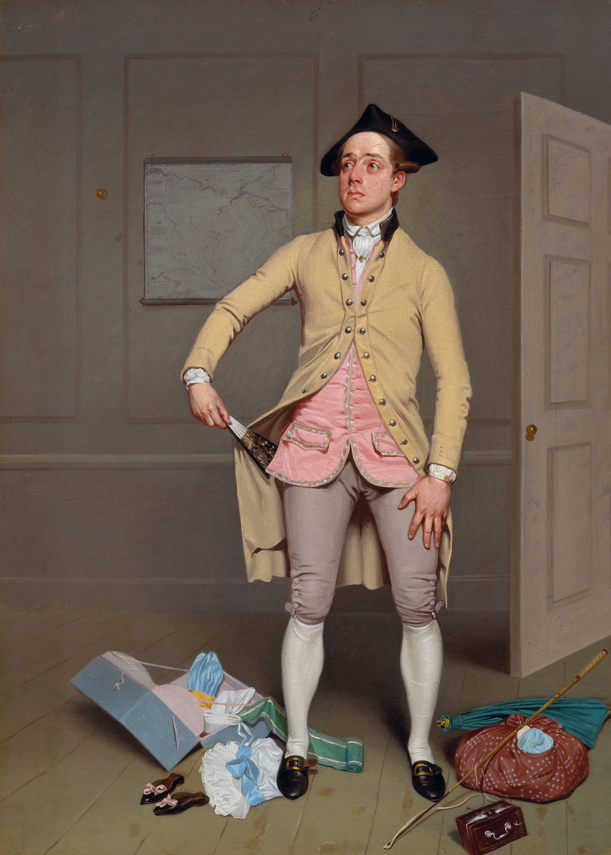 Samuel Thomas Russell as Jerry Sneak in the play 'The Mayor of Garratt' by Samuel Foote. (The image shows a scene in the play when Jerry is bossed around by his wife. The moment he enters with the luggage, he was ordered to collect, his wife demands her fan. Jerry drops everything to the floor, to retrieve it.)